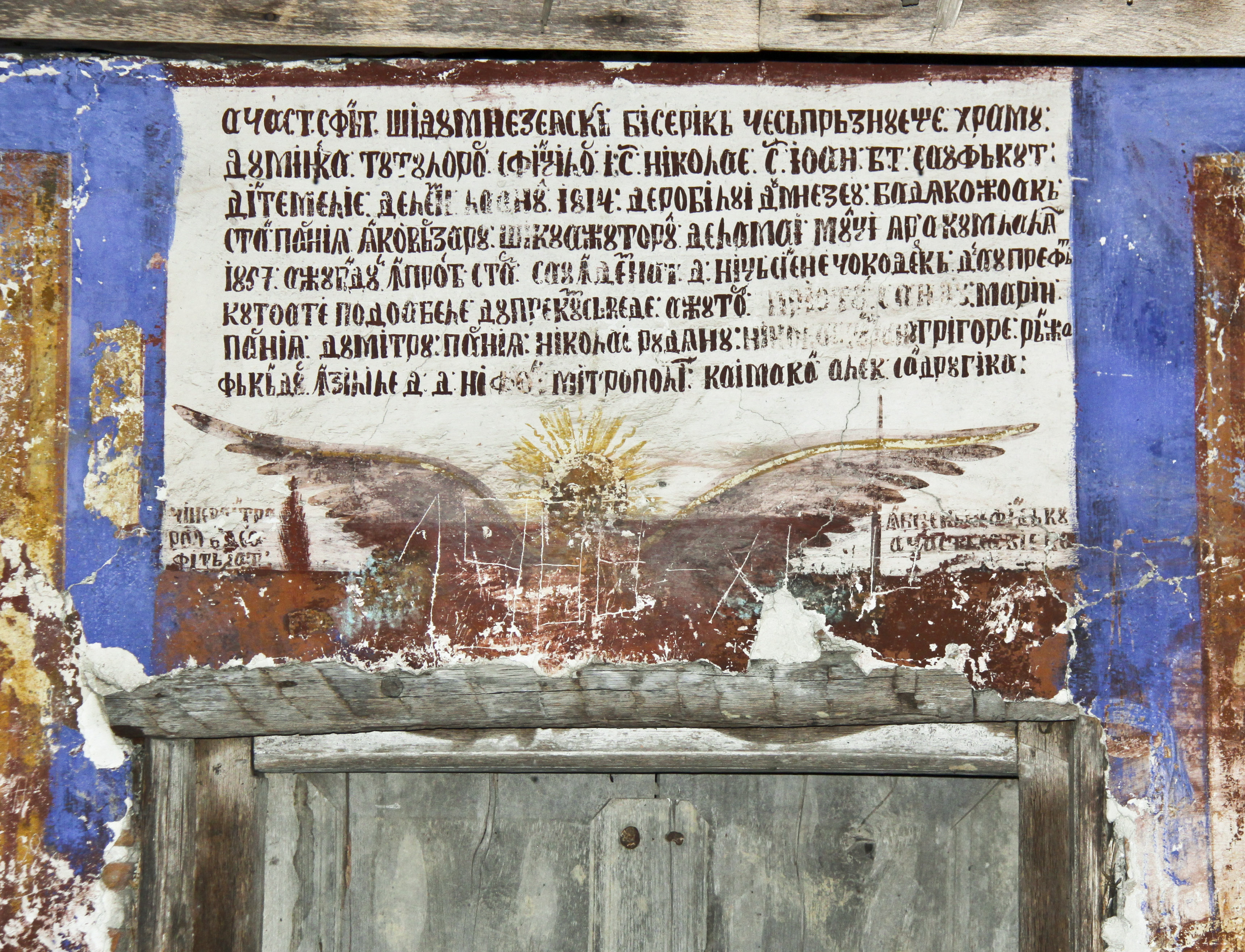 Gemenea-Onceşti, Dâmboviţa couny, Romania: the wooden church, West side, inscription above entrance.